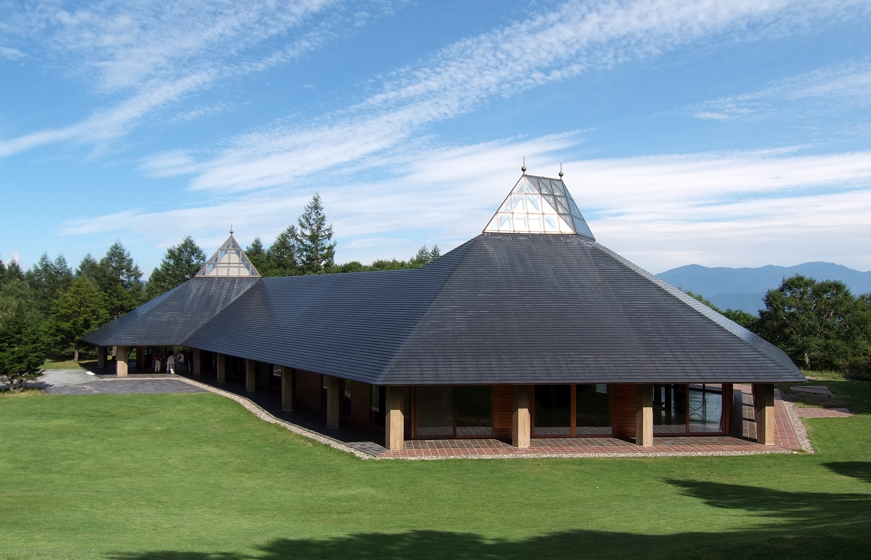 The Hall of Chamber Music, Yatsugatake, at Minamimaki, Nagano, Japan, designed by Junzo Yoshimura in 1988.